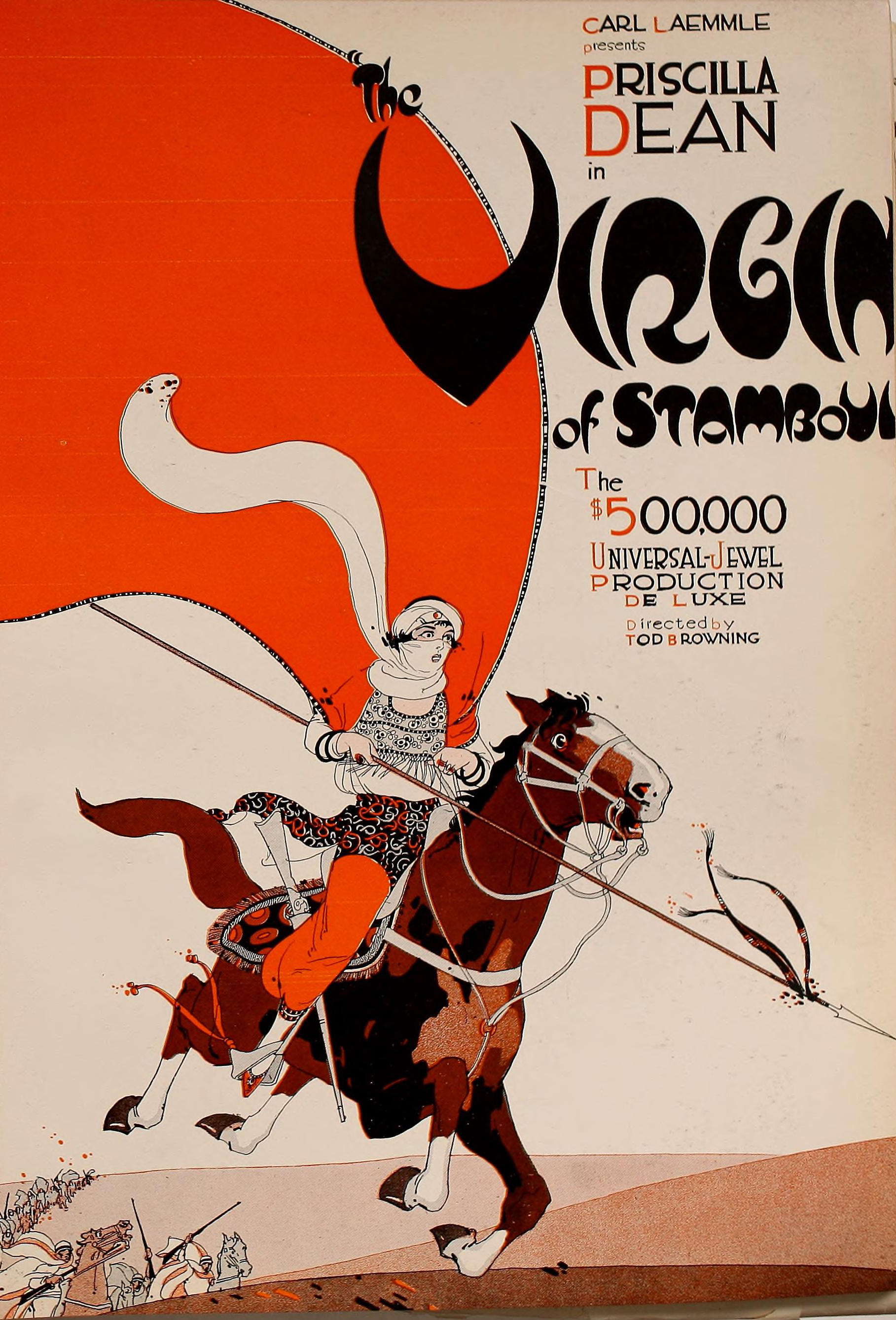 Advertisement in Motion Picture News